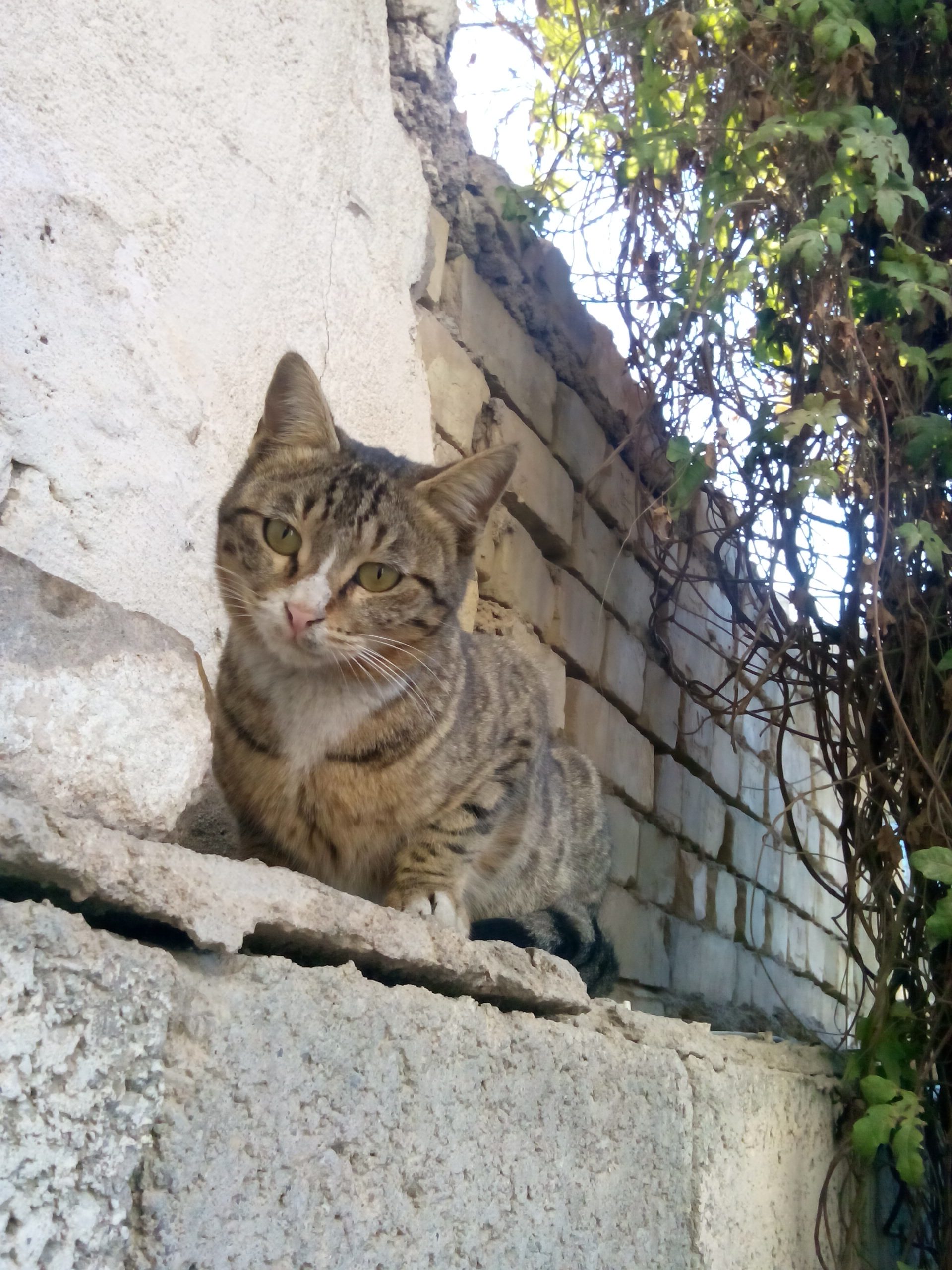 cat in the garden